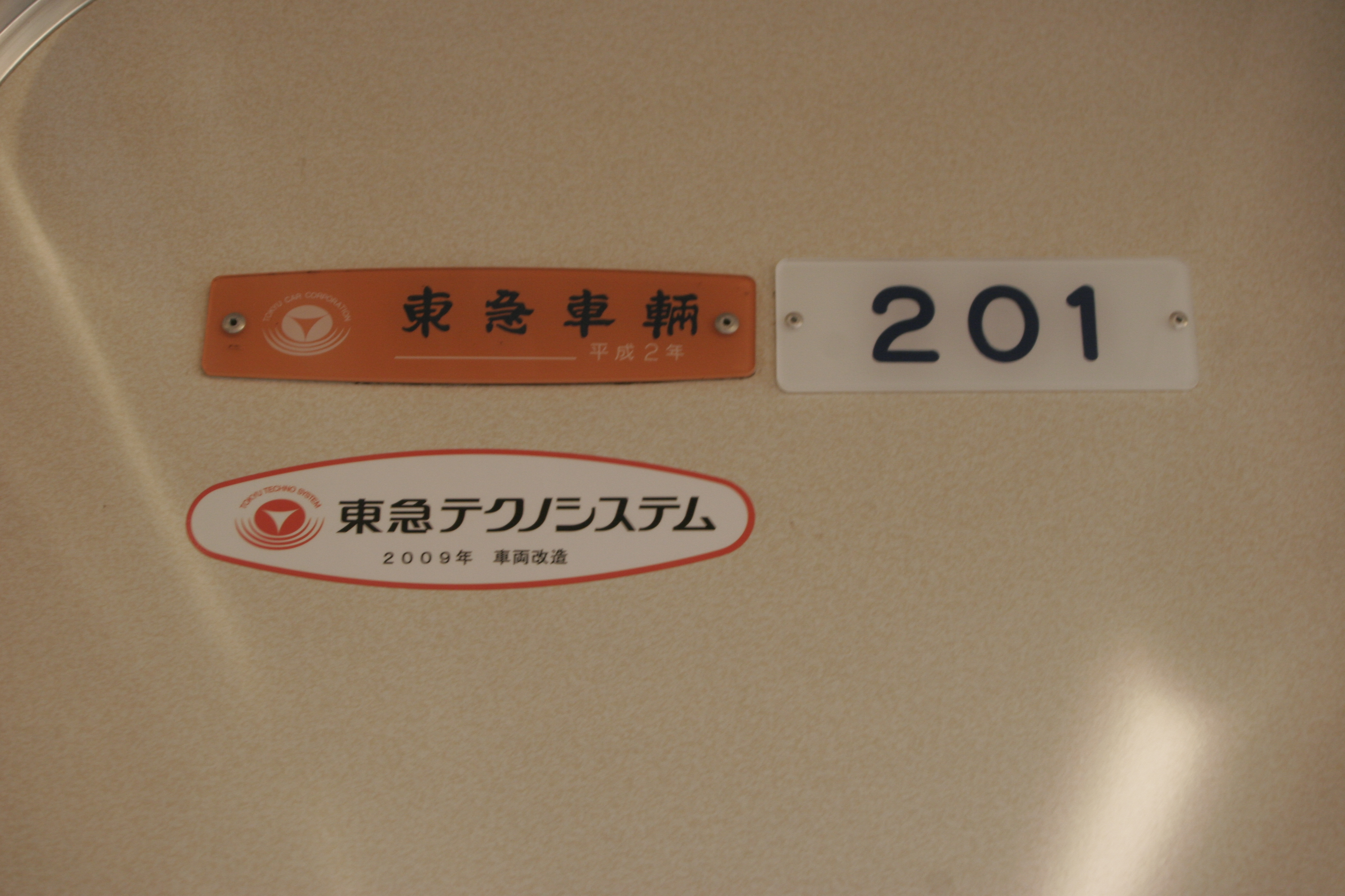 Iga Railway 200